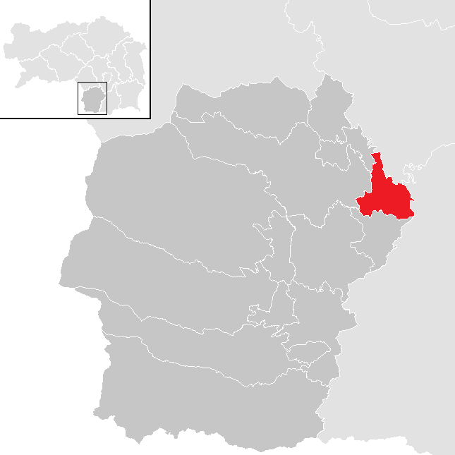 District Deutschlandsberg, Styria, Austria